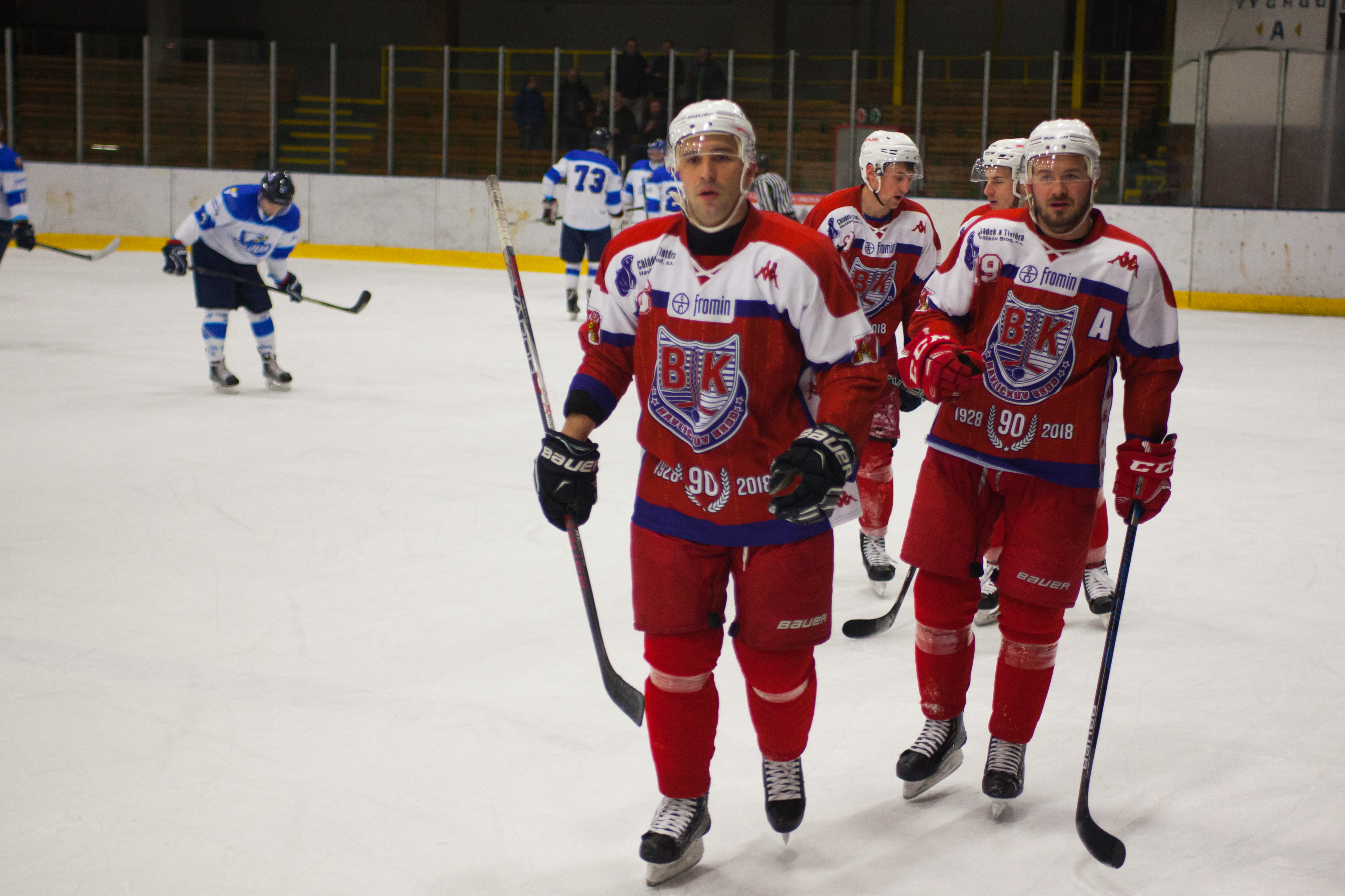 Second Czech league match between HC Orlová-BK Havlíčkův Brod Meziříčí played on 9 February 2019